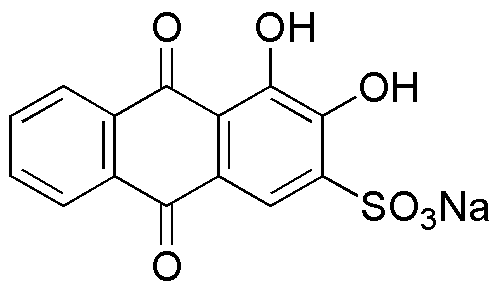 Chemical structure of Alizarin Red S.